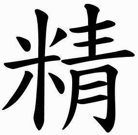 Jing traditional chinese simbol